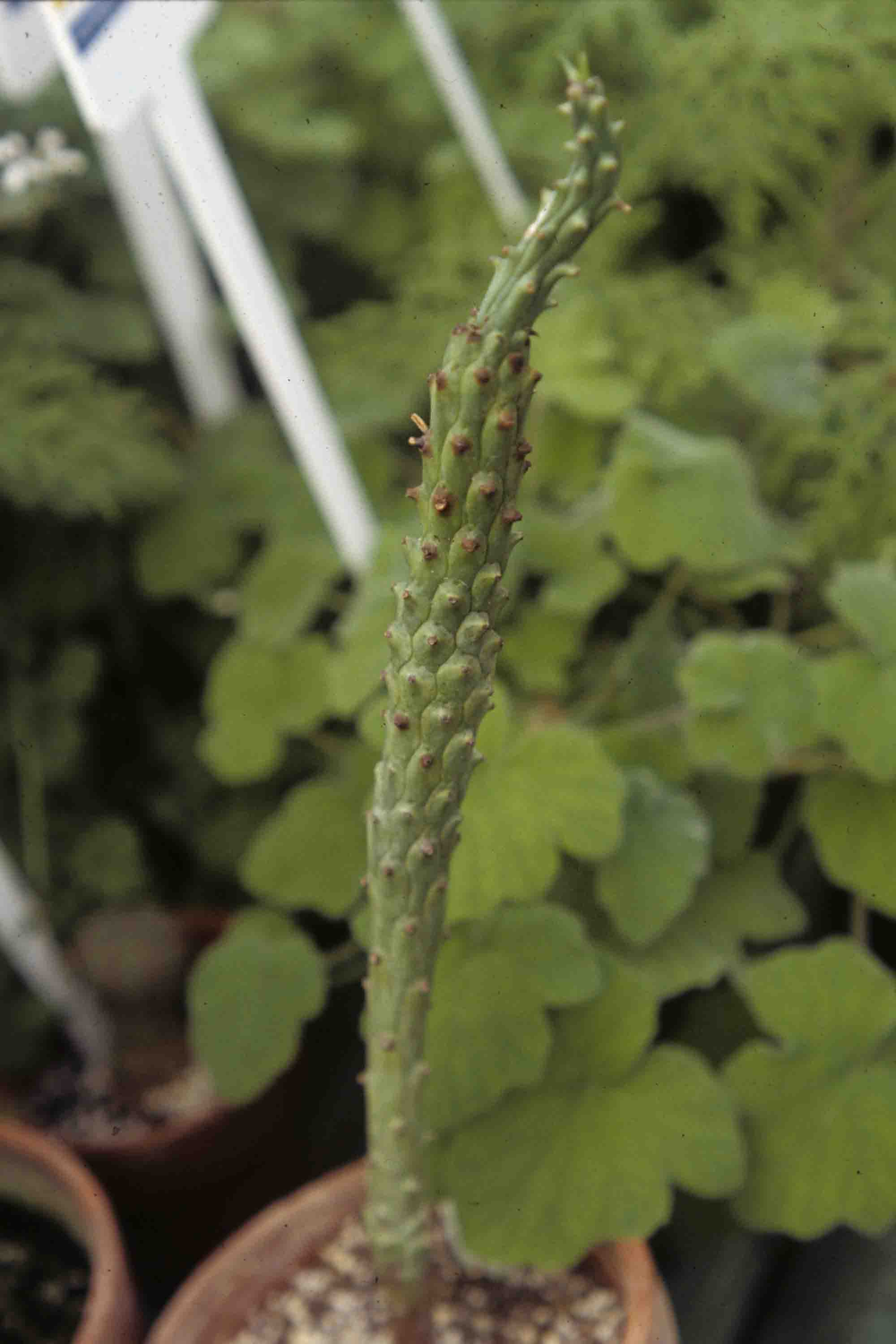 Euphorbia clava, Family: Euphorbiaceae